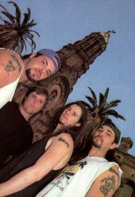 The Band